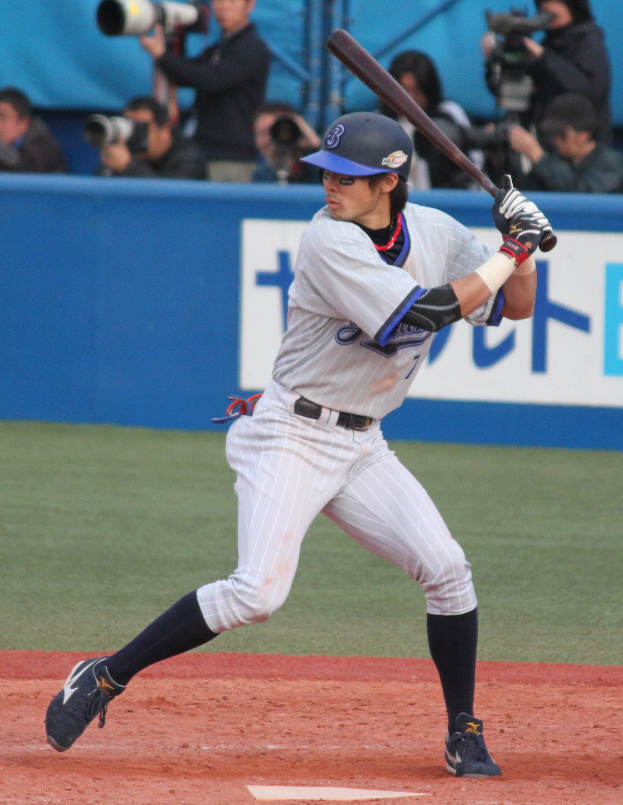 Takehiro Ishikawa, infielder of the Yokohama BayStars, at Meiji Jingu Stadium.